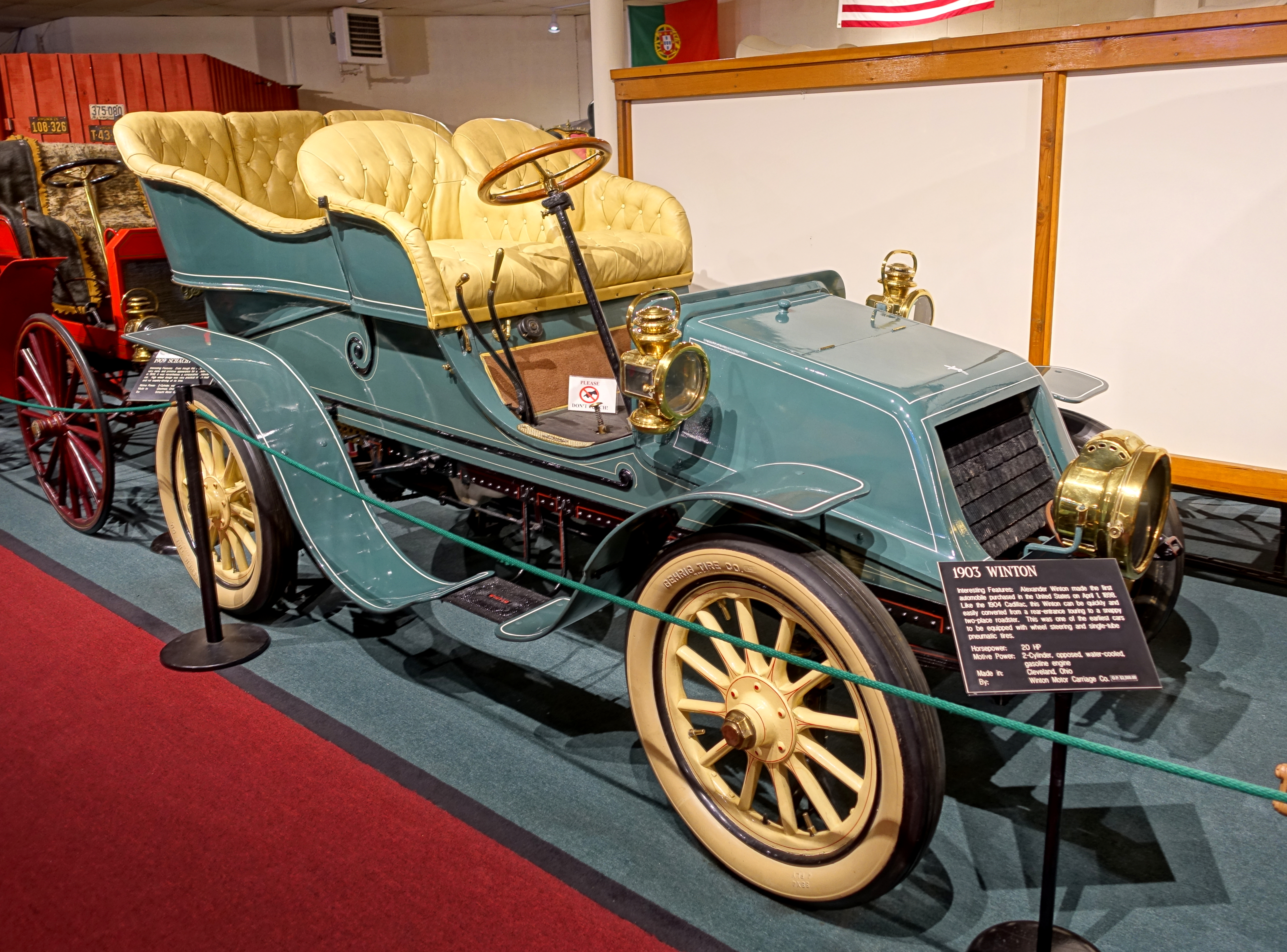 Exhibit in the in the Luray Caverns Car and Carriage Museum, Lurary, Virginia, USA.